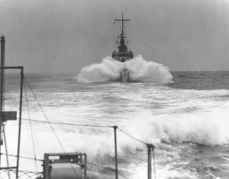 The U.S. Navy destroyer USS Perkins (DD-377) steaming through heavy seas, 27 August 1937. The photograph was taken from the stern of another destroyer.